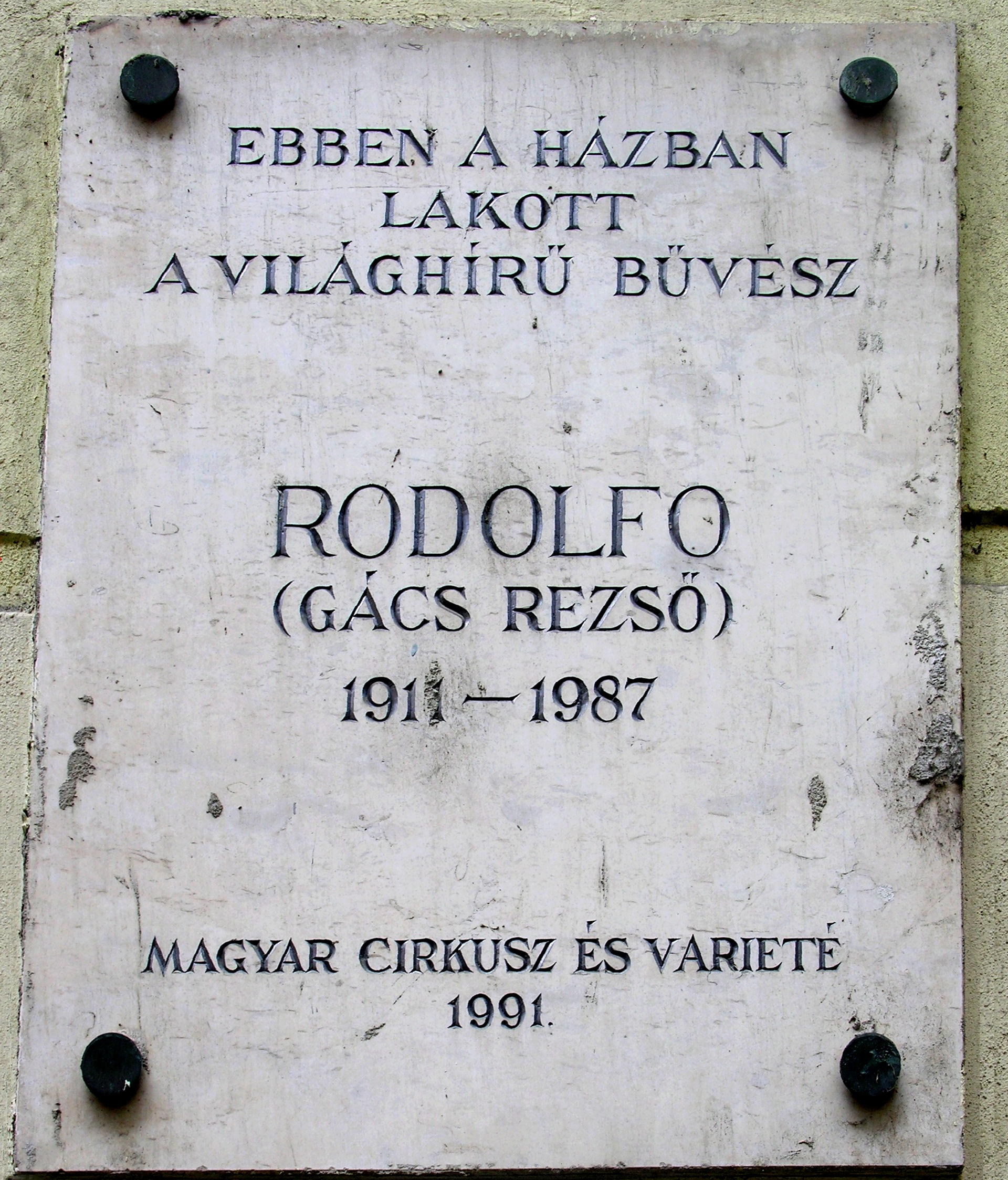 Commemorative plaque of Rodolfo (Rezső Gács) in Budapest District V, Kálmán Imre Street No 14